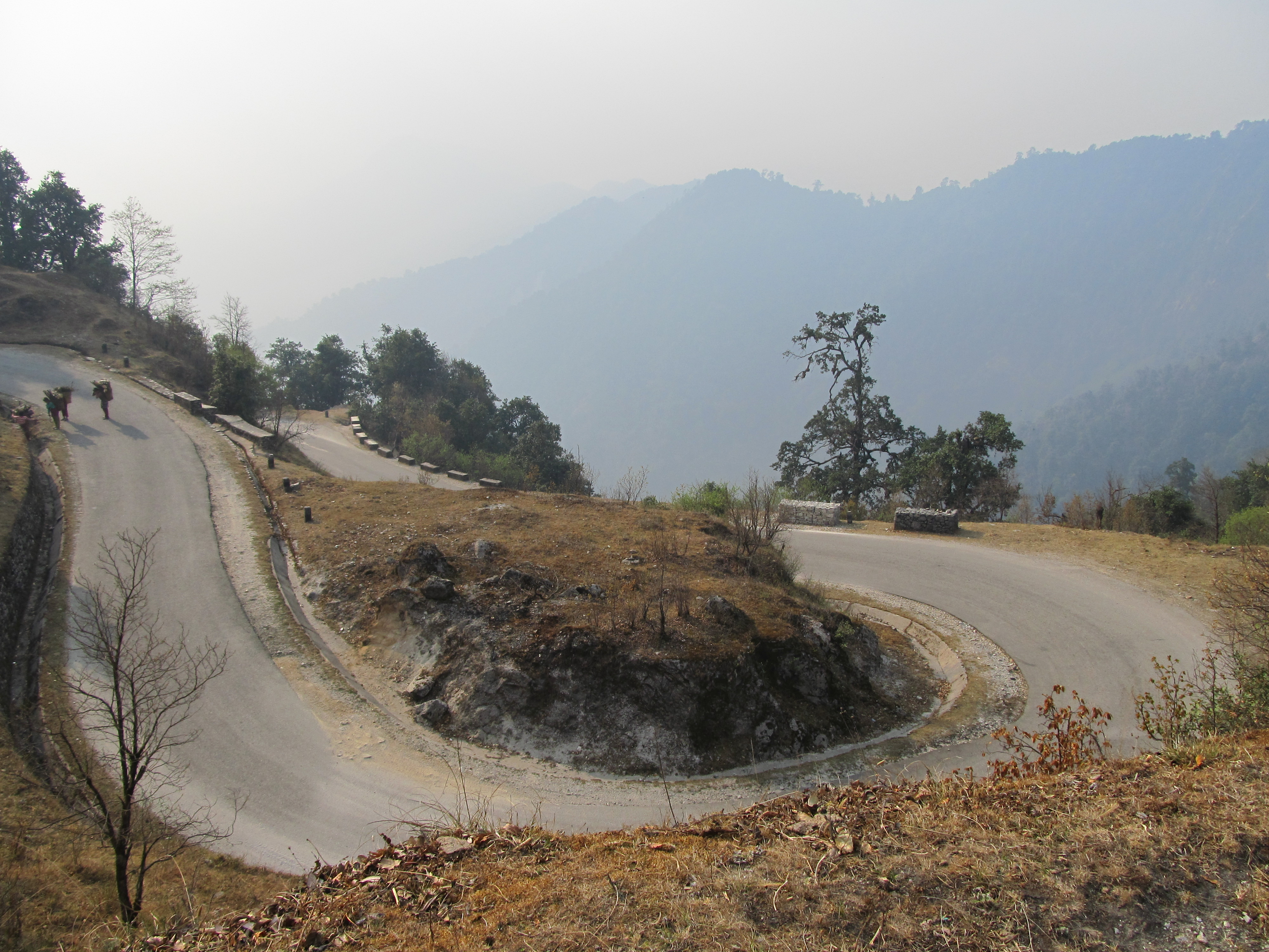 Tribhuvan Rajmarg between Bhainse and Daman